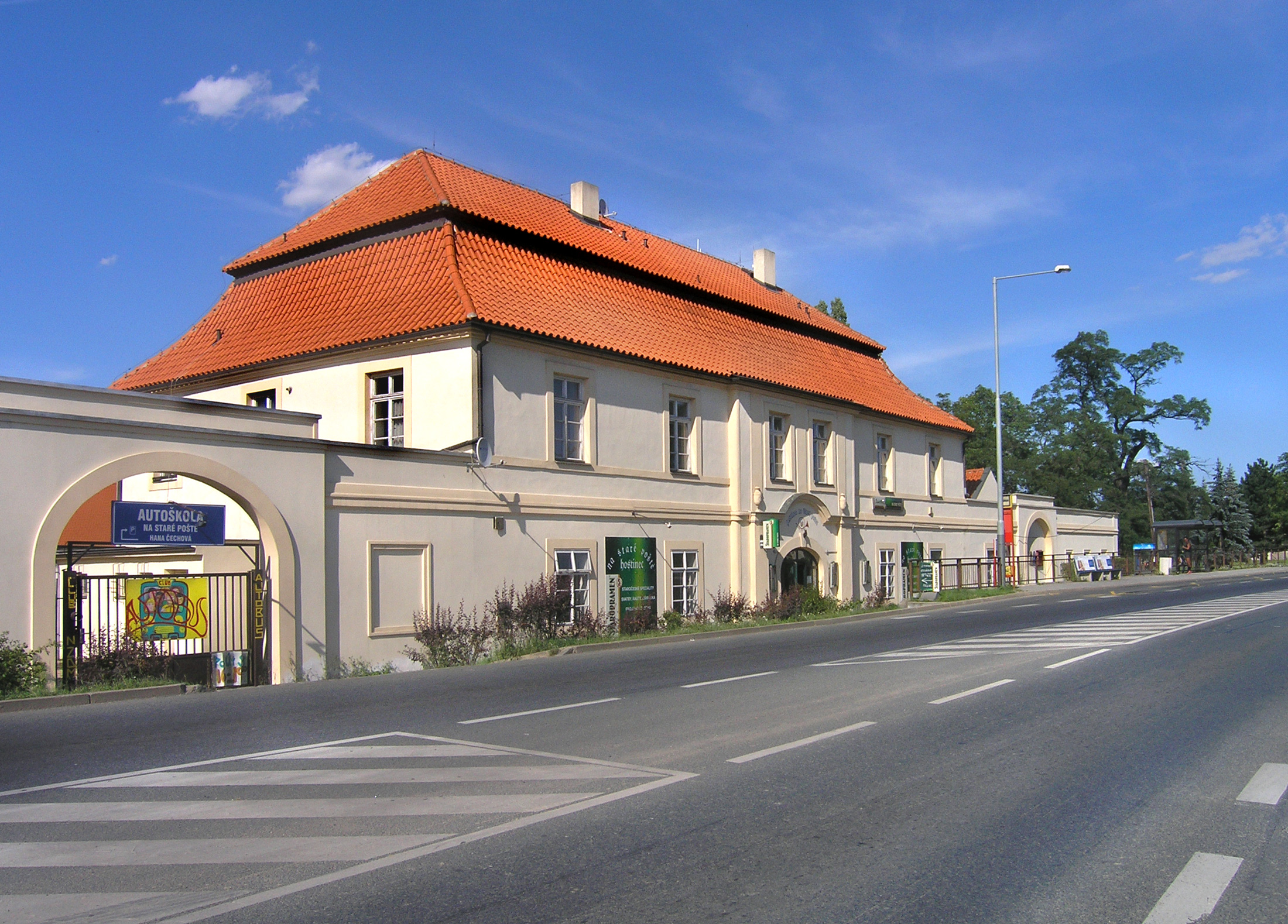 Českobrodská street at Běchovice, Prague